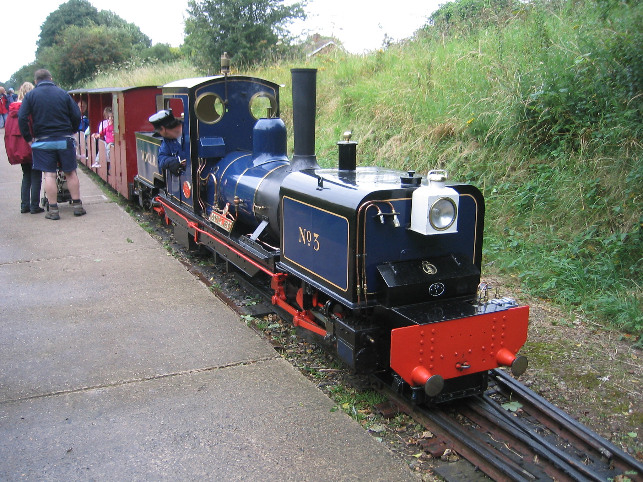 Deben Dave 09:27, 16 August 2007 (UTC)